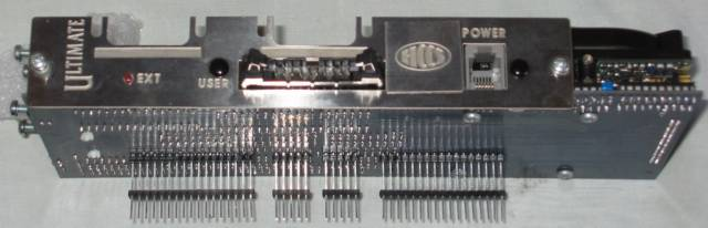 HCCS A3010 Ultimate Expansion (back).The HCCS A3010 Ultimate Expansion adds a 21MB 2.5" IDE hard disk, user port and two micro-podule slots to the A3010. It also includes a small fan. The serial number is ULT3010-100745 and the ROM version in Ultimate MP A3010 Version G. The micro podules are the same as those used with other HCCS Ultimate Expansion systems.There is a socket for an external power supply, but I don't know what voltage. (probably 5V DC) to power the disc drive and other connected devices.For some micro-podules see HCCS in 32bit Upgrades.I don't have any documents.